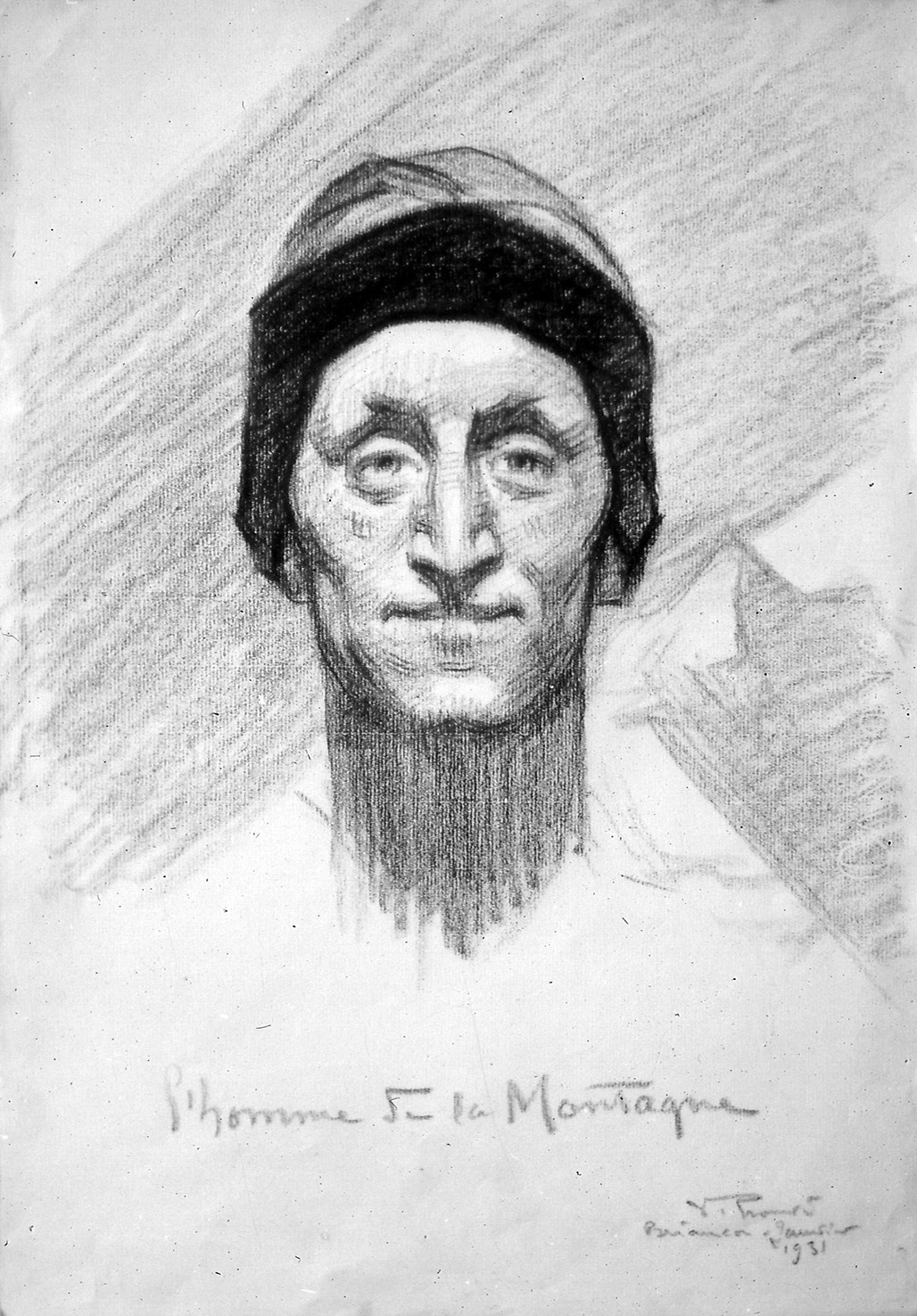 "L'Homme de la Montagne" (portrait of André Georges, 1902-1963) by Victor Prouvé, 1931.